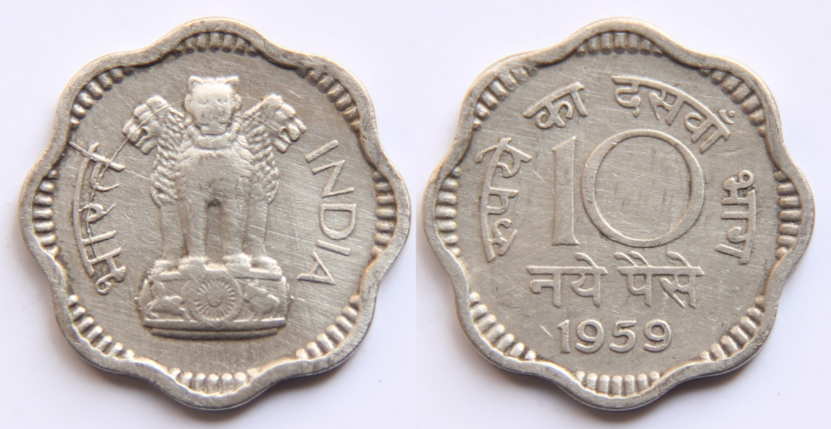 Face value: 10 Naya paise. Country: India. Year of minting: 1959. Metal: Copper-nickel. Shape: Scalloped. Obverse: State Emblem of India and country name. Reverse: Face-value and year. Lettering on top: रुपये का दसवाँ भाग (